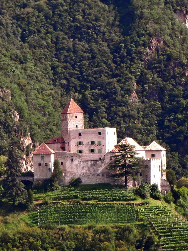 View of northern elevation, Karneid castle